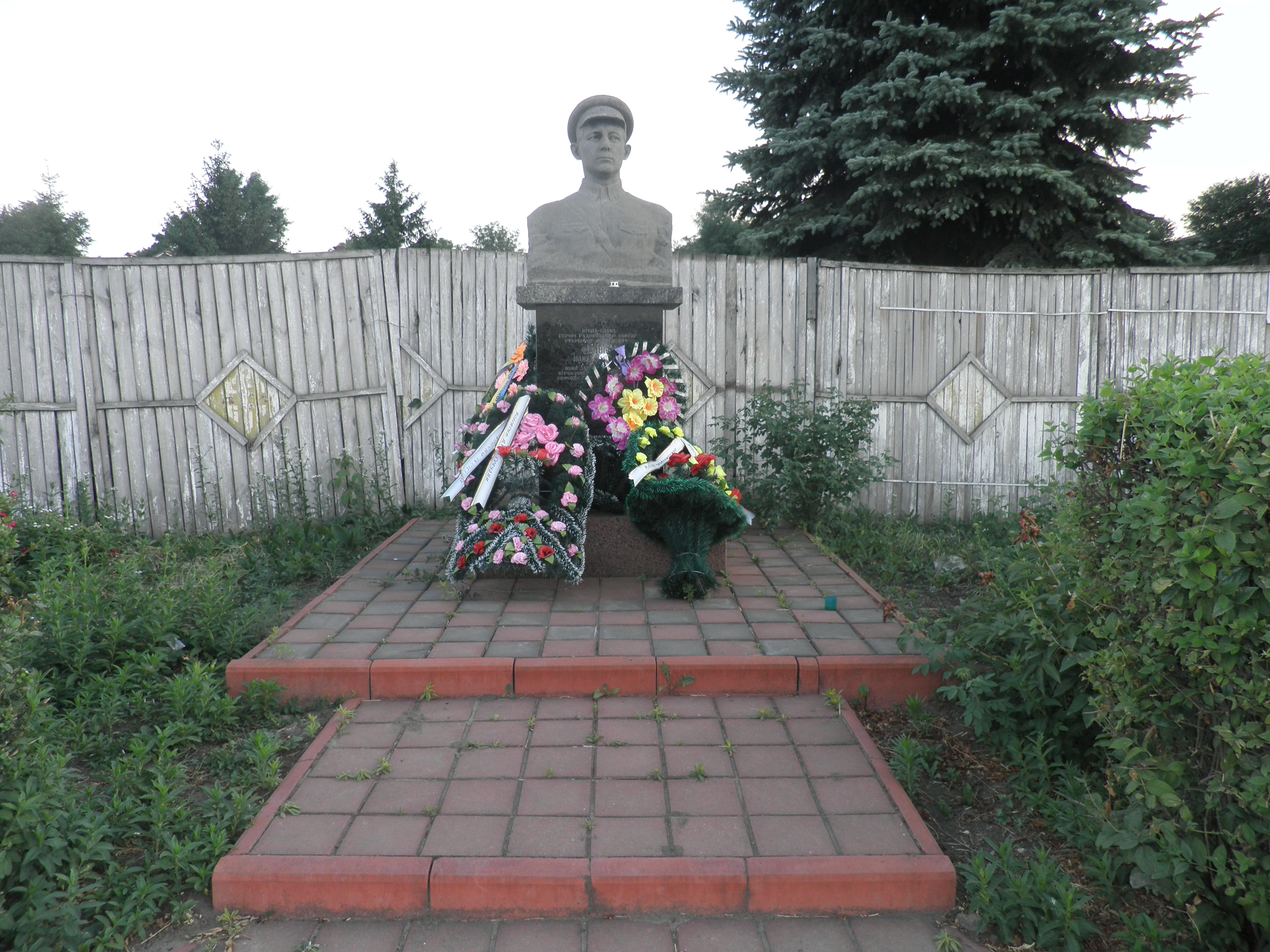 Bust at the burial place of Ivan Ivanovich Filippov near railway station Grechany